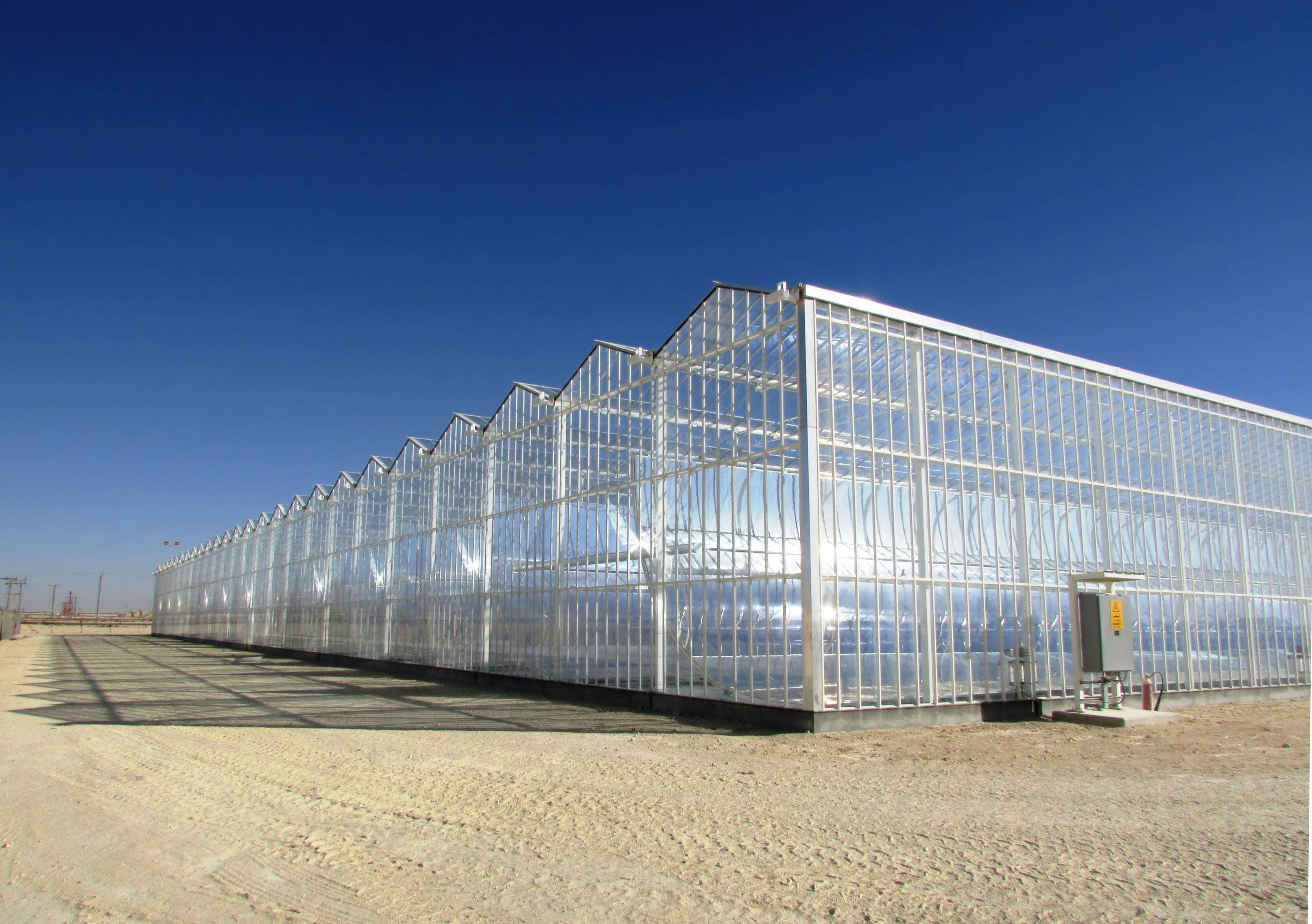 An up-close view of a solar enhanced oil recovery project, commissioned by Petroleum Development Oman and developed by GlassPoint Solar in Amal, Oman.